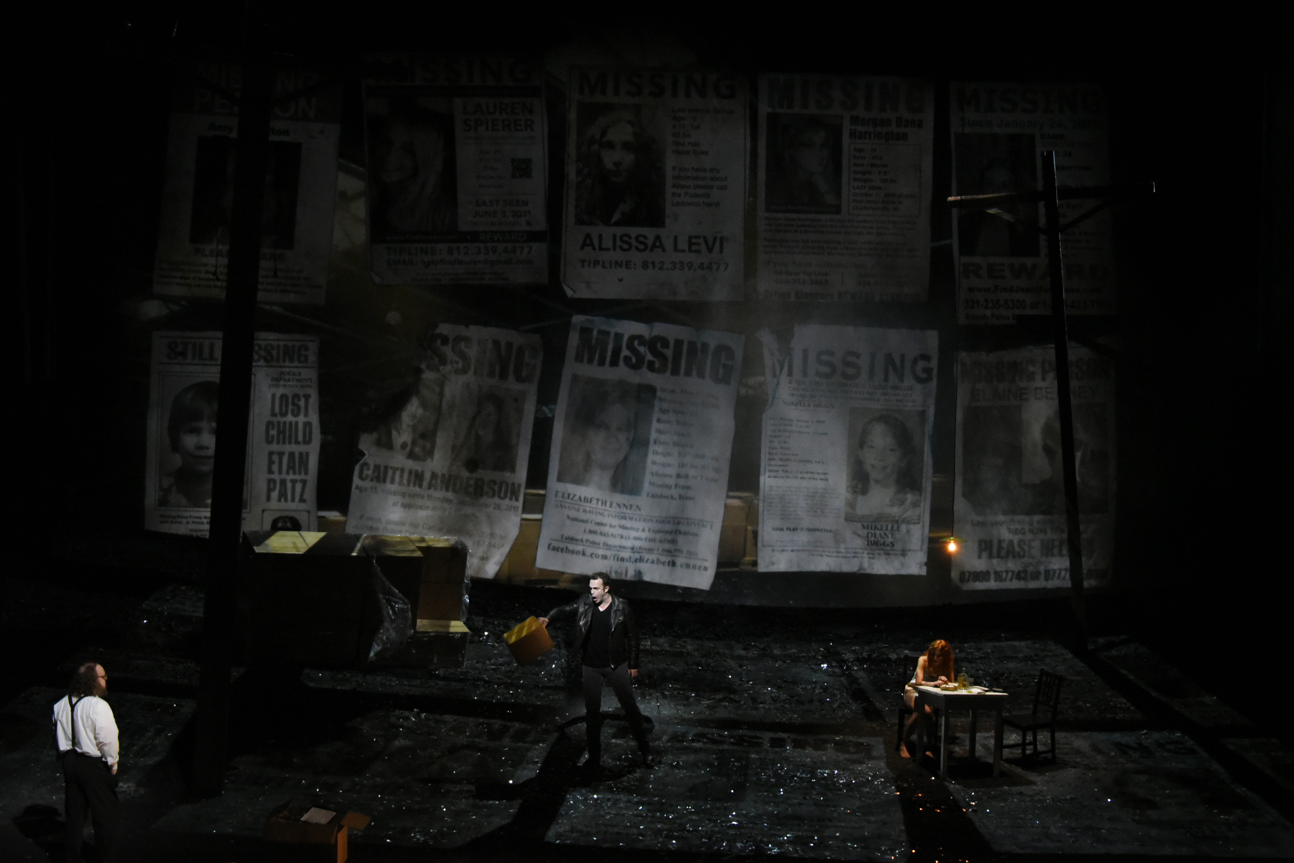 Die Gezeichneten, opera by Franz Schreker (Opéra de Lyon 2015)